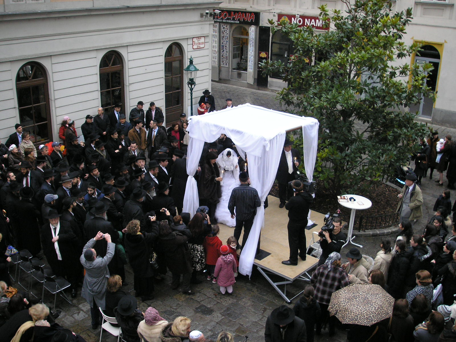 Orthodox Jewish wedding with chupah in Vienna's first district, close to Judengasse.